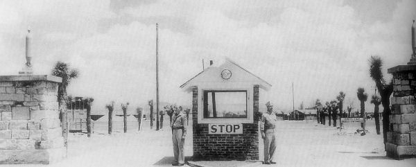 Wendover Army Airfield Main Gate - 1944 Source: USAAF via Nevada Historical Society and Thole, Lou (2003). Forgotten Fields of America, Volume III. Pictorial Histories Publishing Co. Inc ISBN: 1575101025